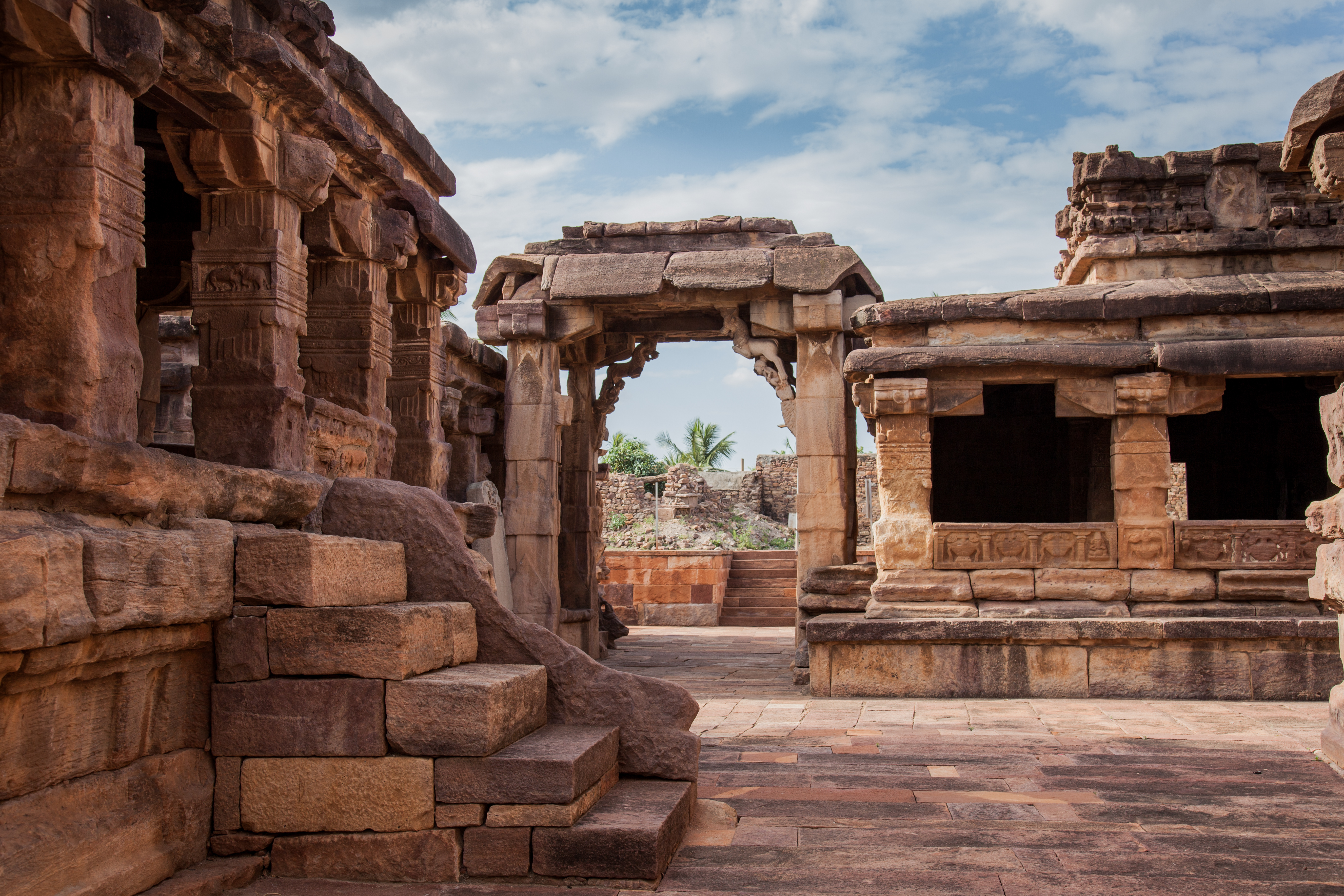 Ahihole